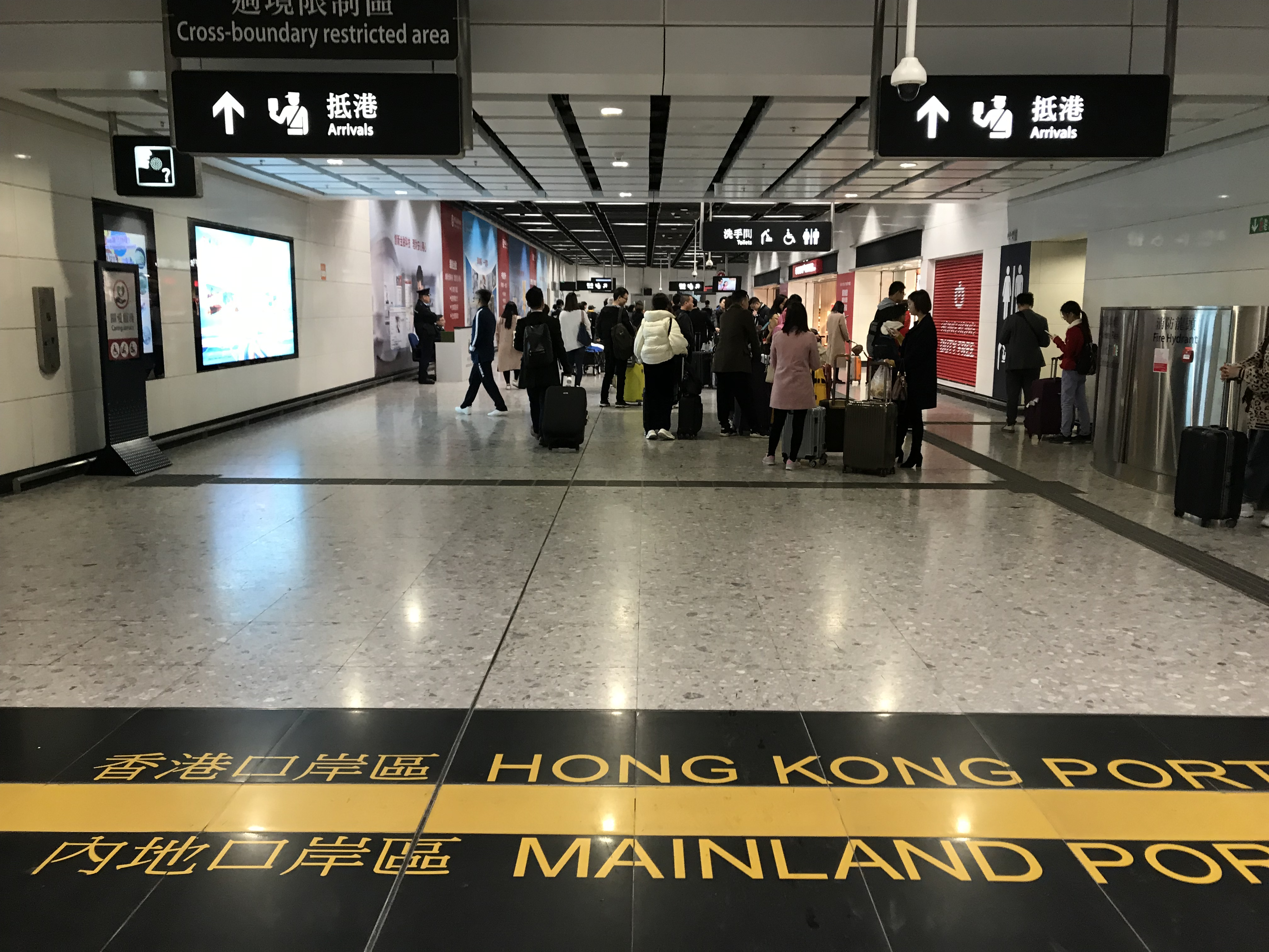 201901 XJA Mainland Port Area Exit on B2